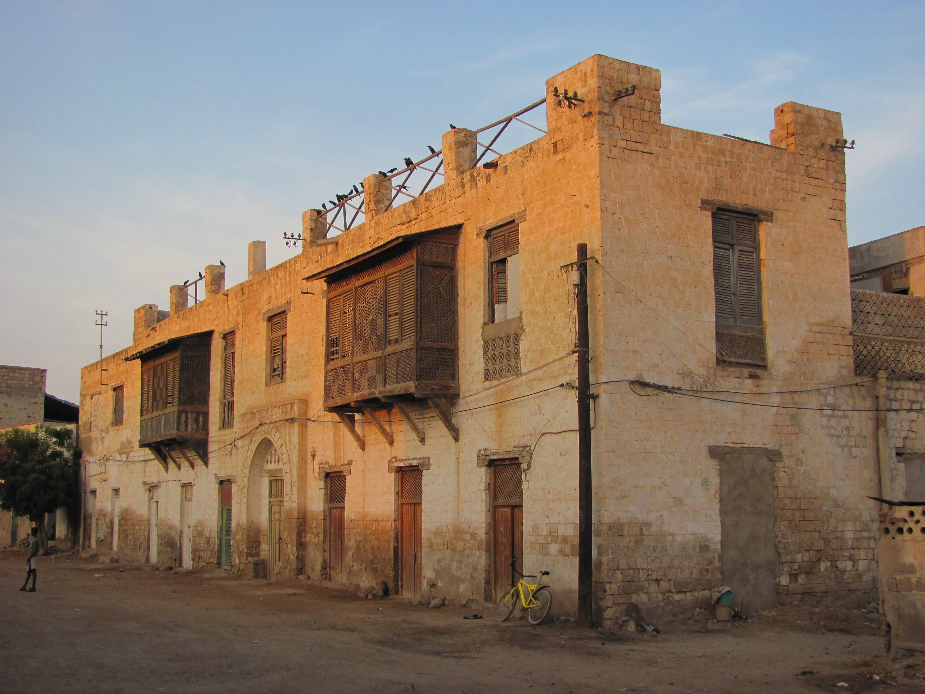 Historic center of Massawa, Eritrea